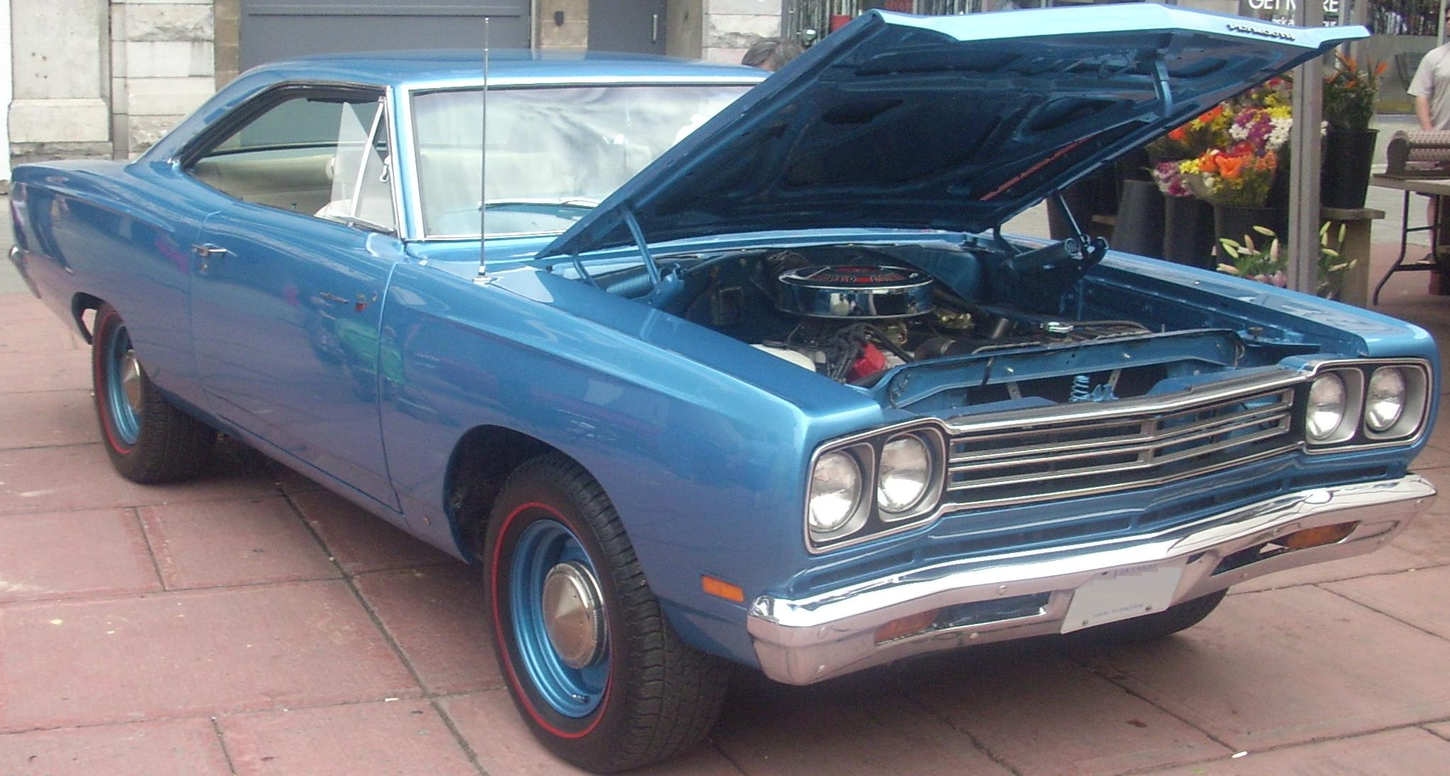 Plymouth Road Runner photographed in Ottawa, Ontario, Canada at the Byward Market Auto Classic 2009.